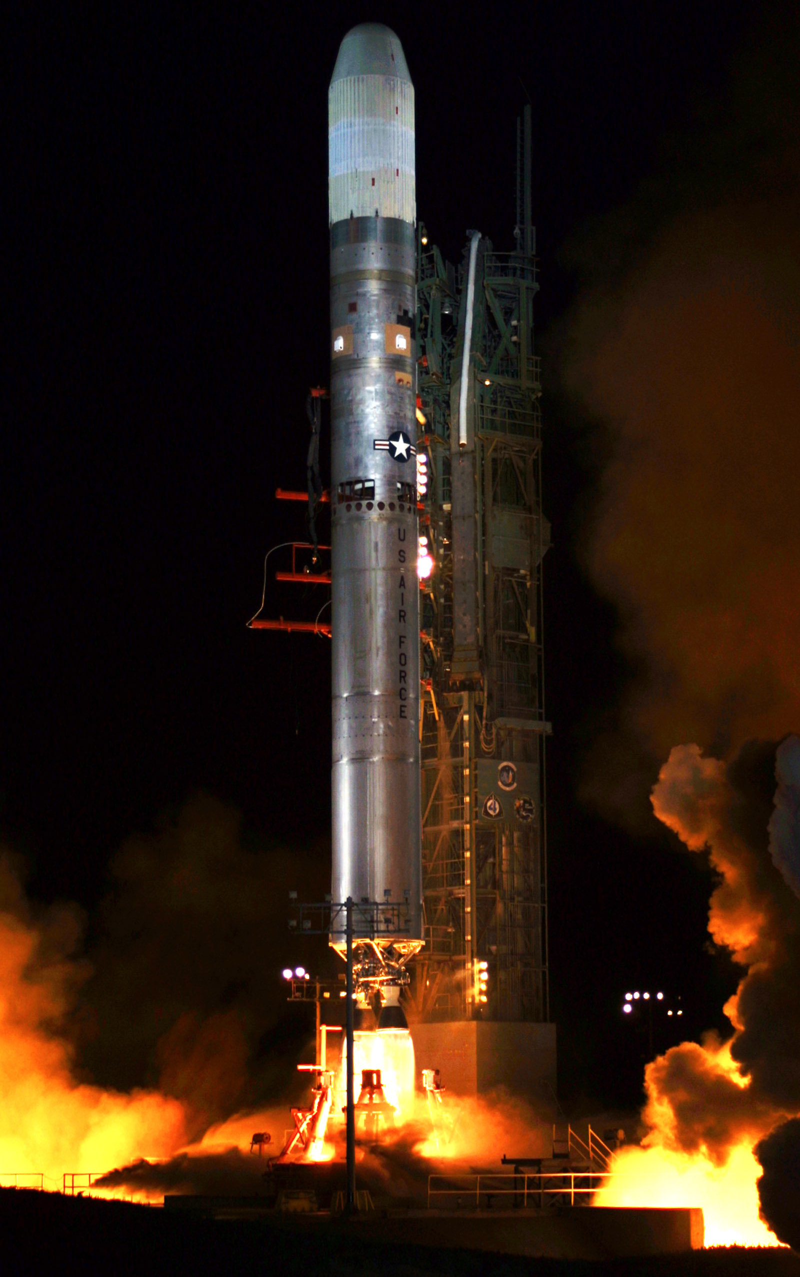 Launch of Titan II 23G-4 carrying the Coriolis satellite.